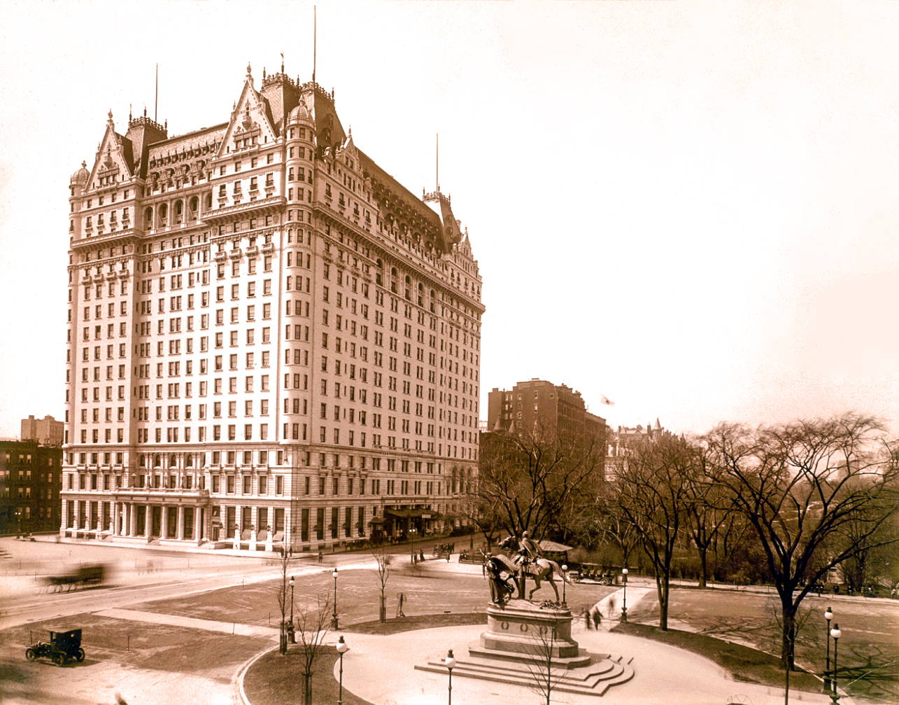 The Plaza Hotel and Grand Army Plaza of Central Park, in New York City in the early 20th century.